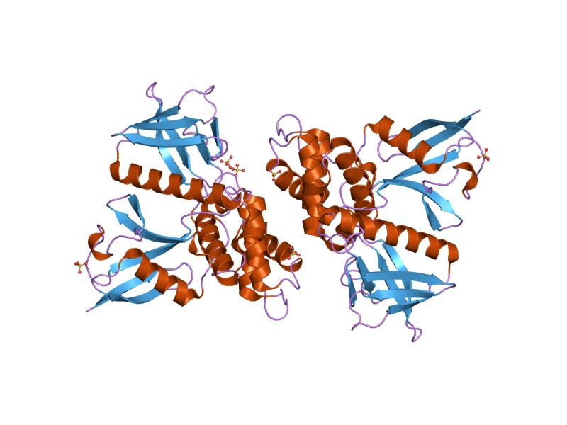 Cartoon representation of the molecular structure of protein registered with 1h4r code.